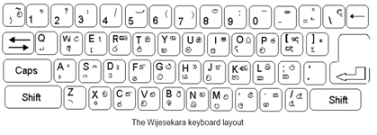 Sinhalese Keyboard Layout